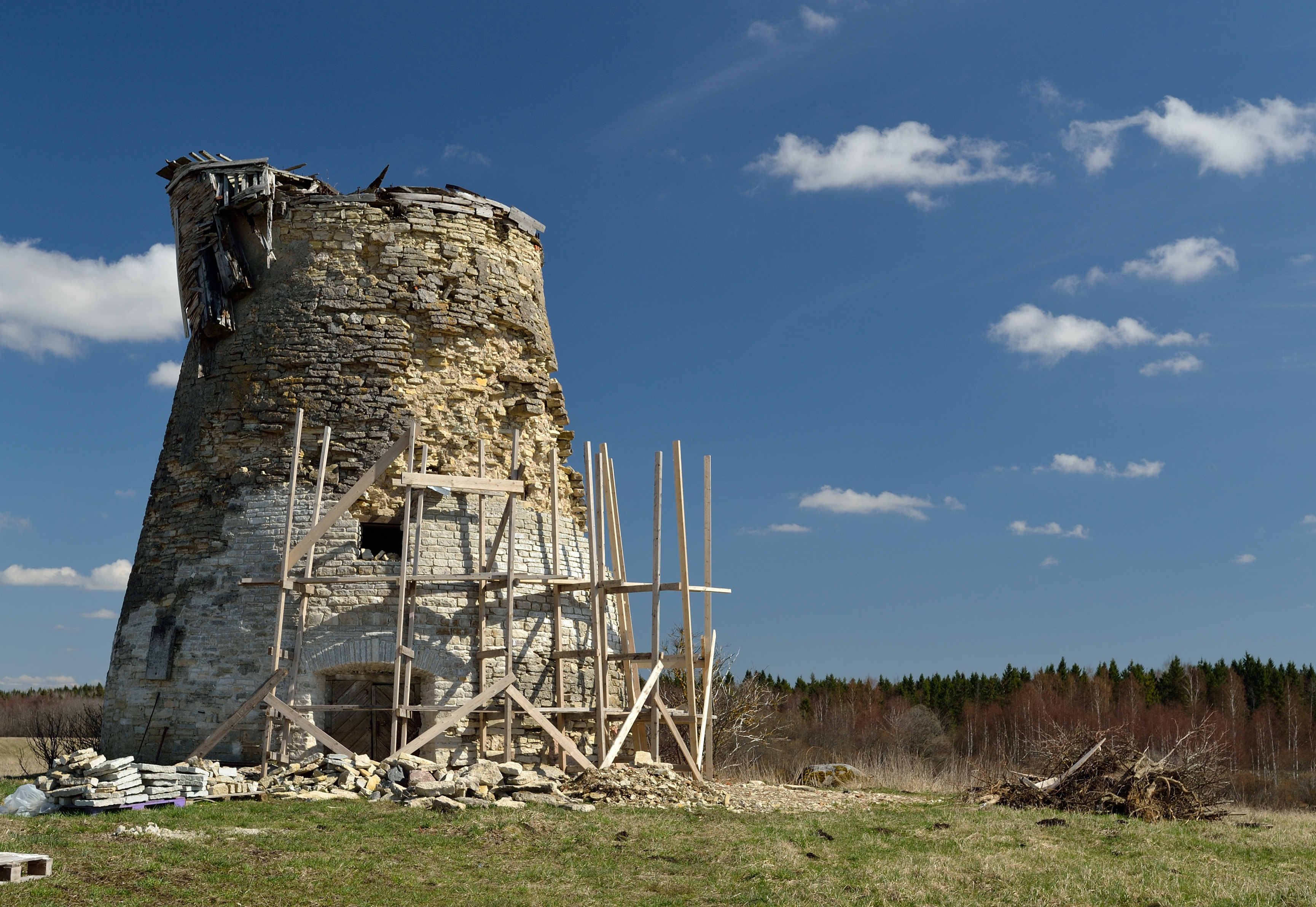 Köisi windmill, built in 1800